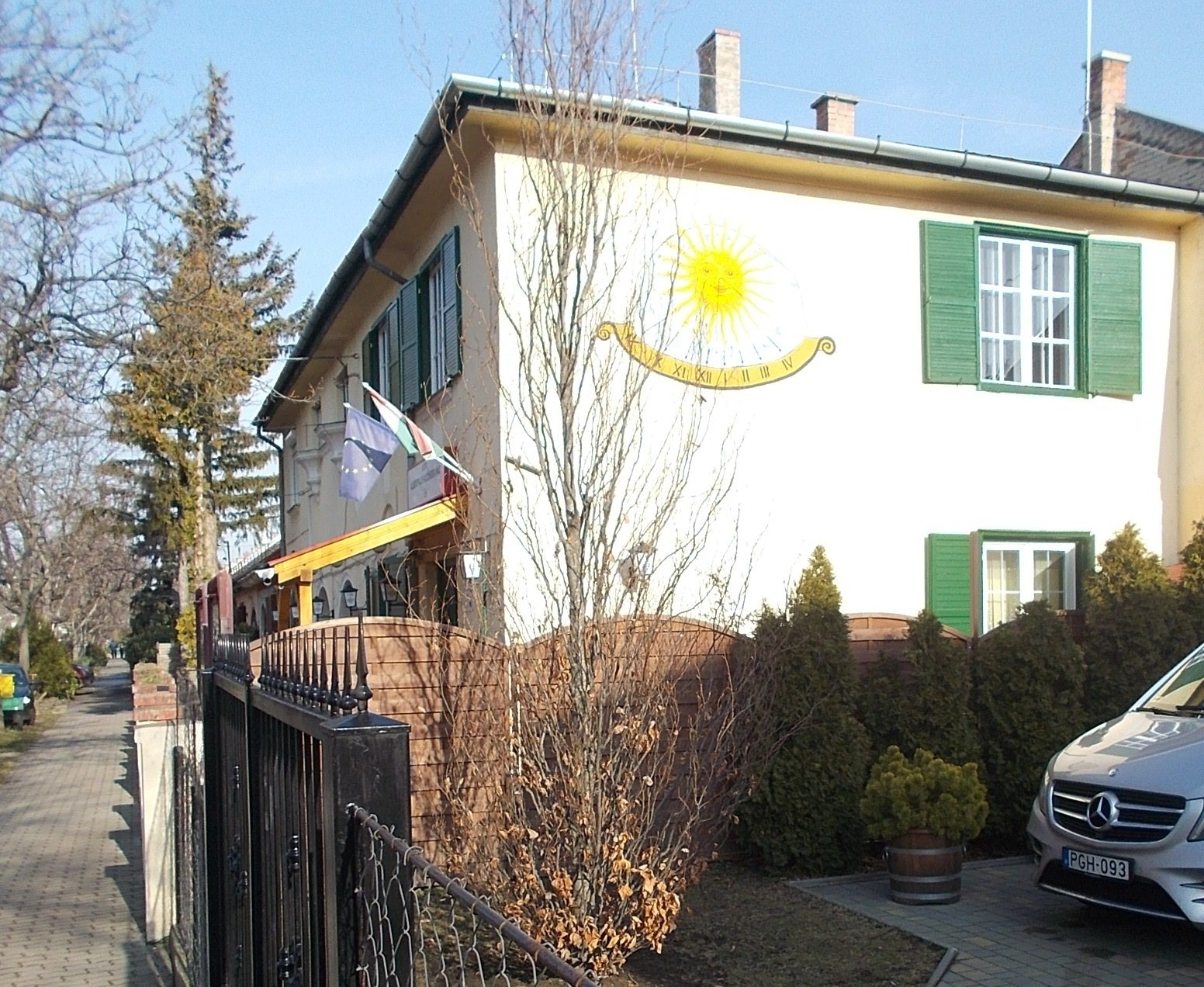 Albertfalva Community House in the Albertfalva Tisztviselőtelep,-(Officer housing estate?) built between 1929 and 1931/1933? planned by Béla Barát and Ede Novák). This estate built for state employees but it was also a popular residential site to artists, priests and scientists. - Gyékényes street, Albertfalva neighbourhood, Újbuda, Budapest.